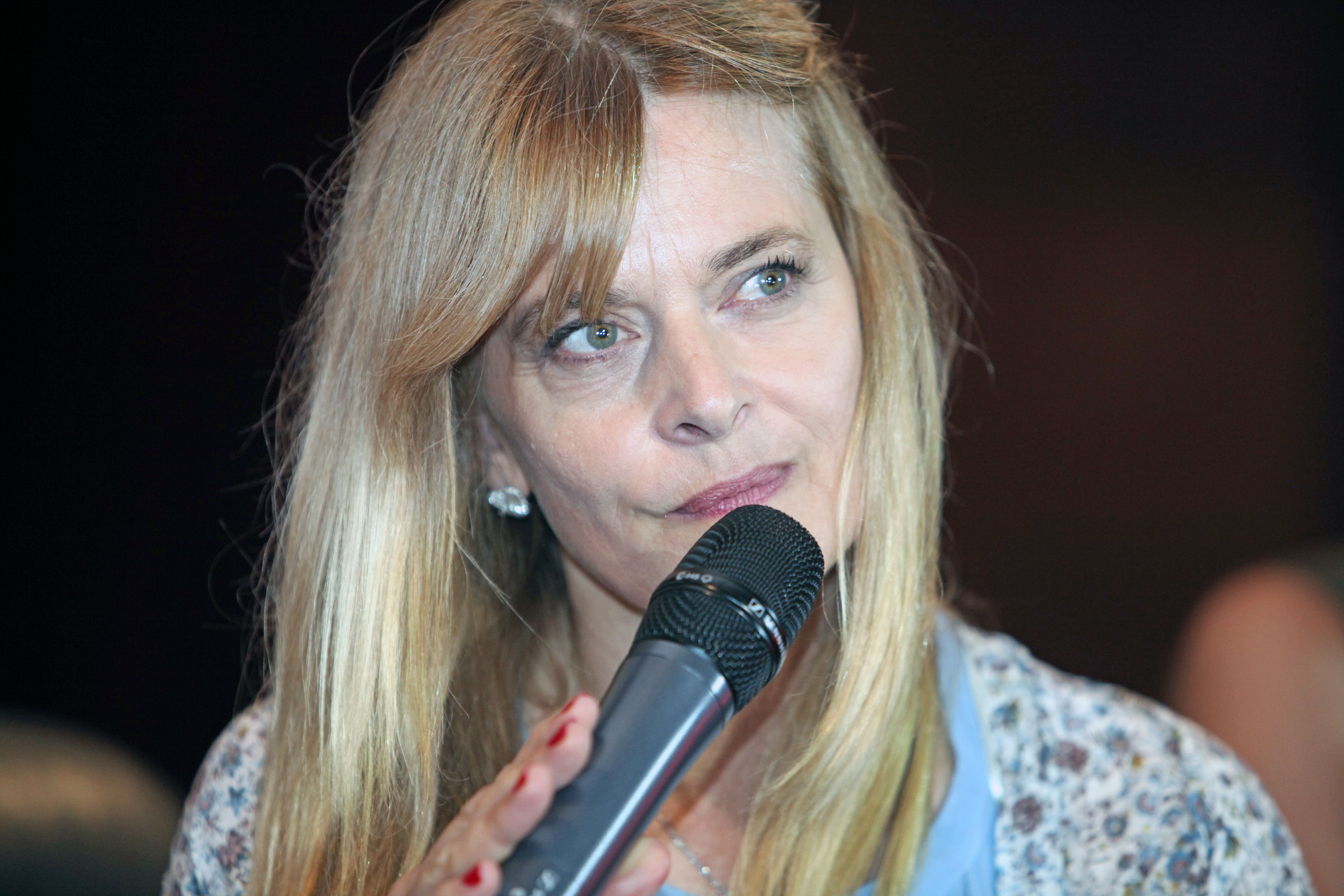 Nastassja Kinski in Yerevan, Armenia, in July 2015.